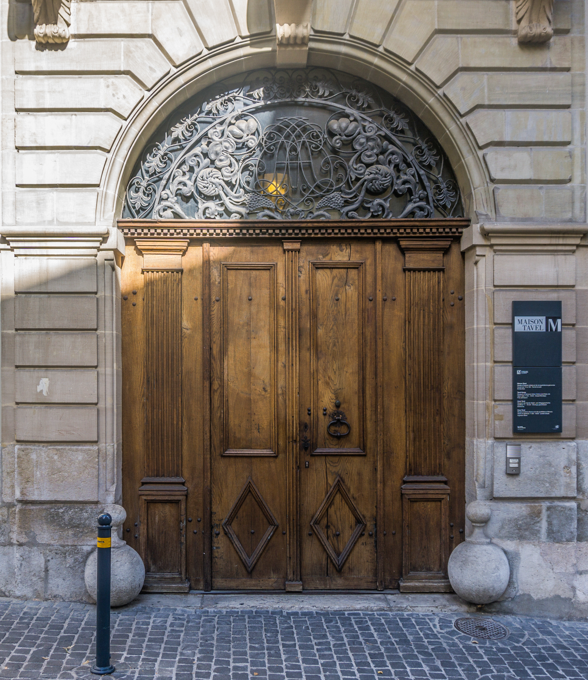 The door of Maison Tavel, Geneva's oldest house